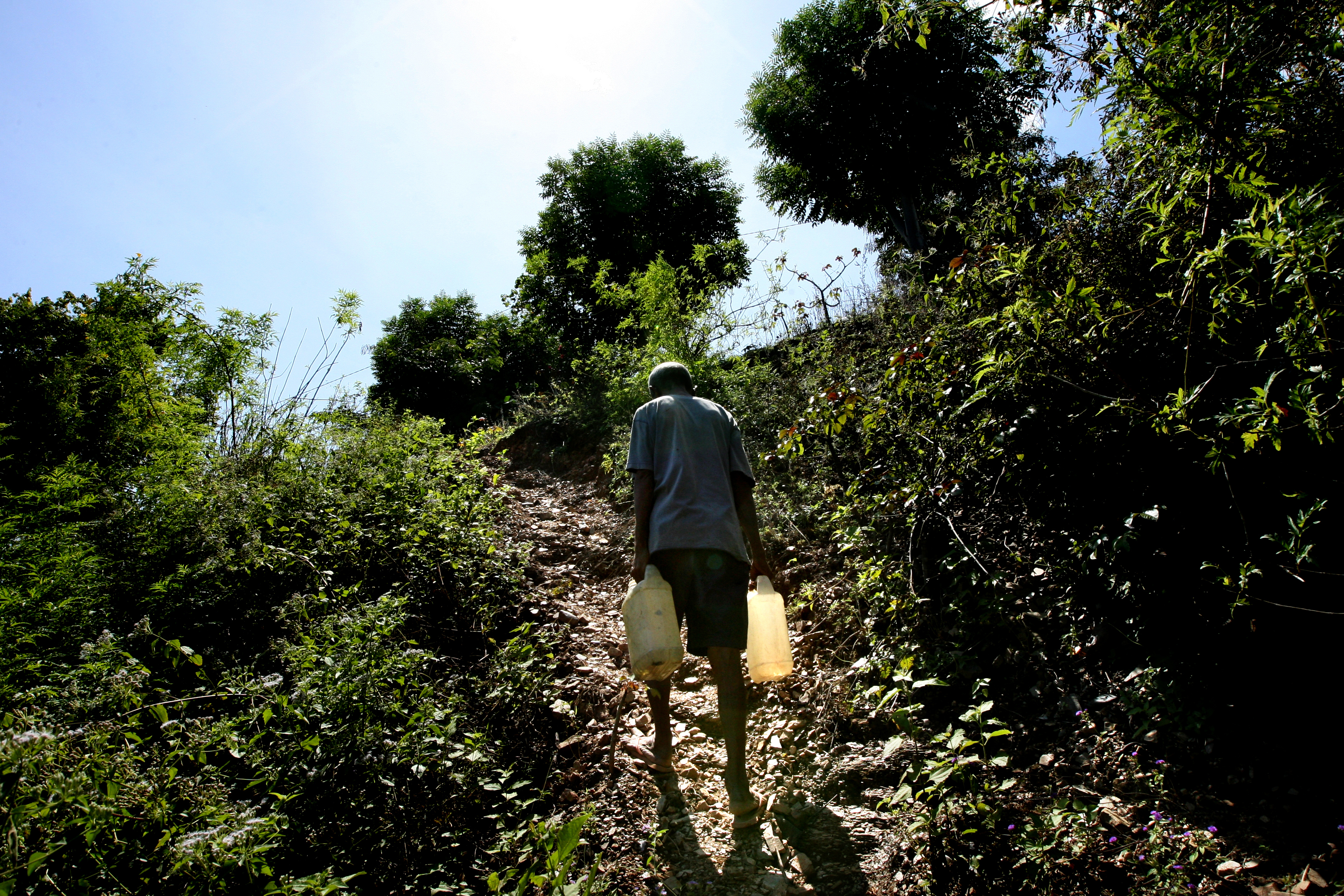 Gabriel de Silva in the village of Camalelara, East Timor, must make the half a kilometre hike twice daily to procure the water that he and his wife Adalina require for cooking, drinking and washing. Photograph by Dean Sewell/oculi/Agence Vu for WaterAid. Photograph taken on the 4th August 2010. To request copyright use and access to hi-res versions of this photo